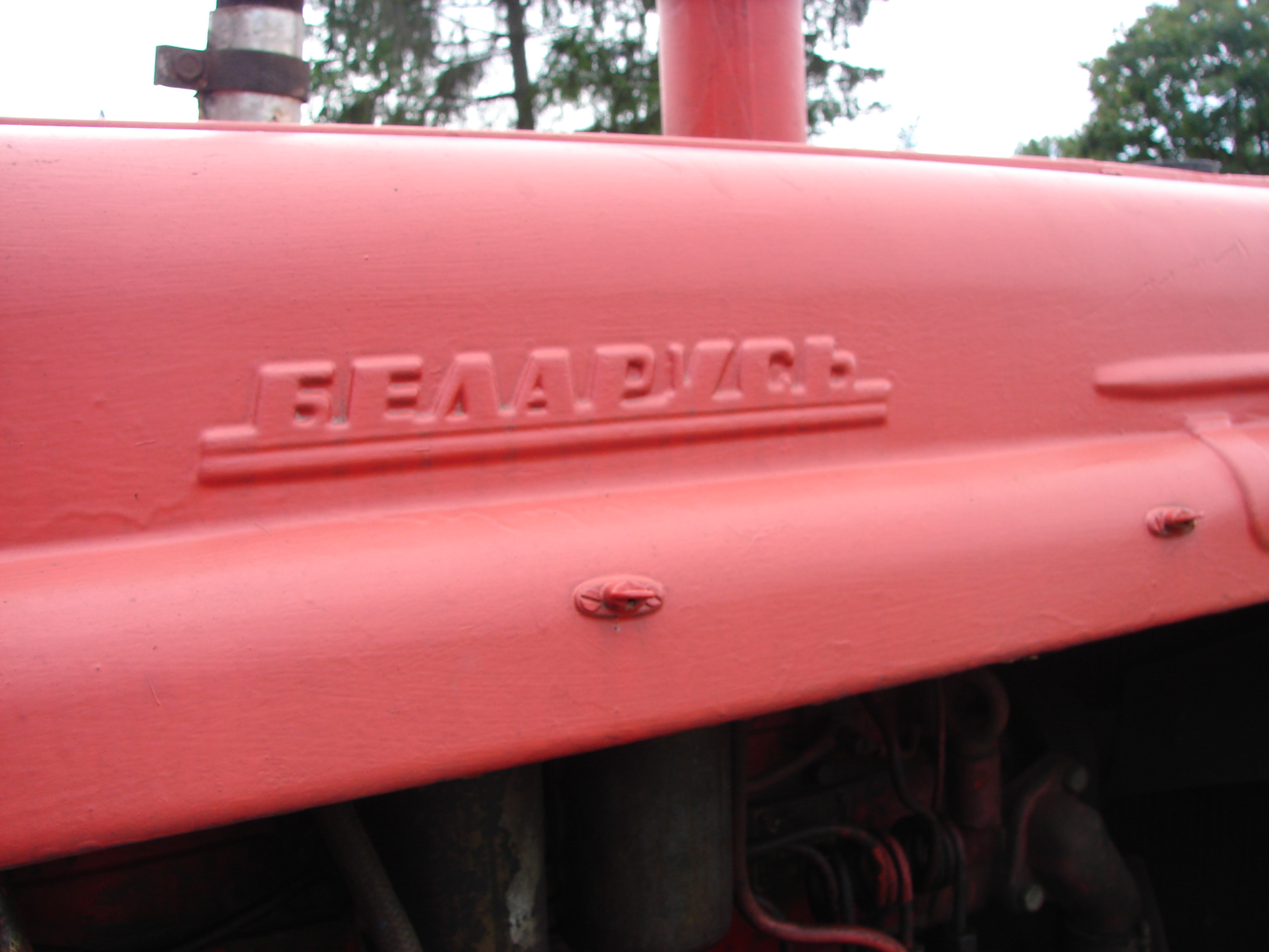 Logo of Minsk Tractor Works, Belarus